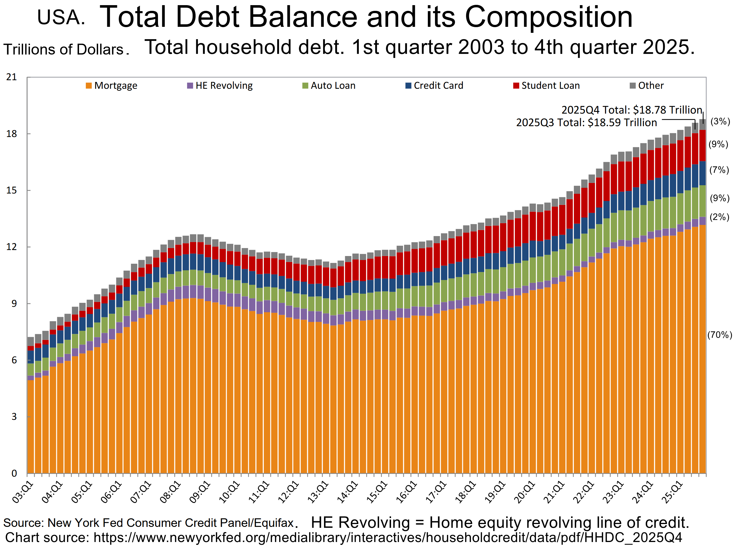 Total US household debt and its composition over time.